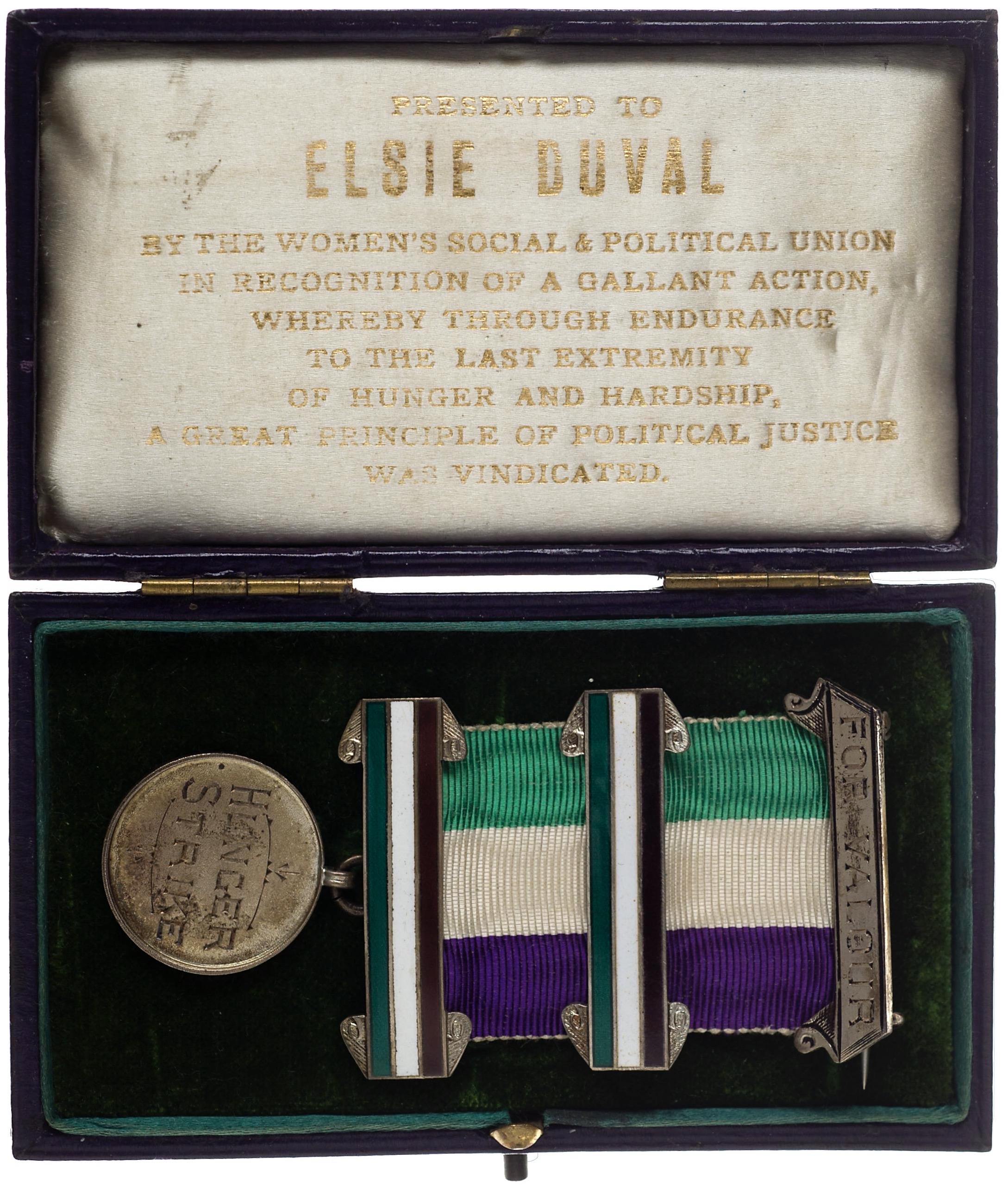 7HFD/D/19